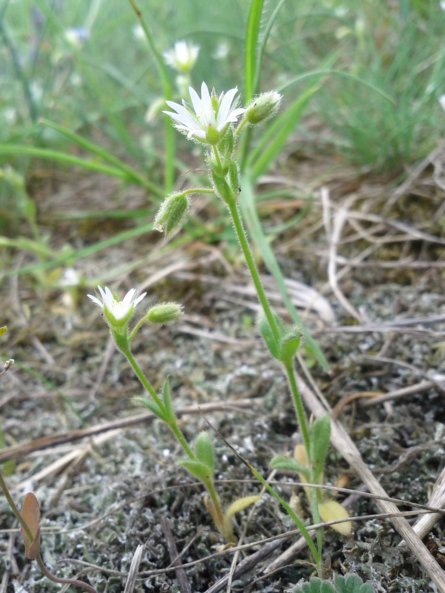 Habitus Taxon: Cerastium pumilum agg. (sensu Fischer et al. EfÖLS 2008 ISBN 978-3-85474-187-9) Location: Steinbacher Heide near Ernstbrunn, district Korneuburg, Lower Austria - ca. 450 m a.s.l. Habitat: dry grassland